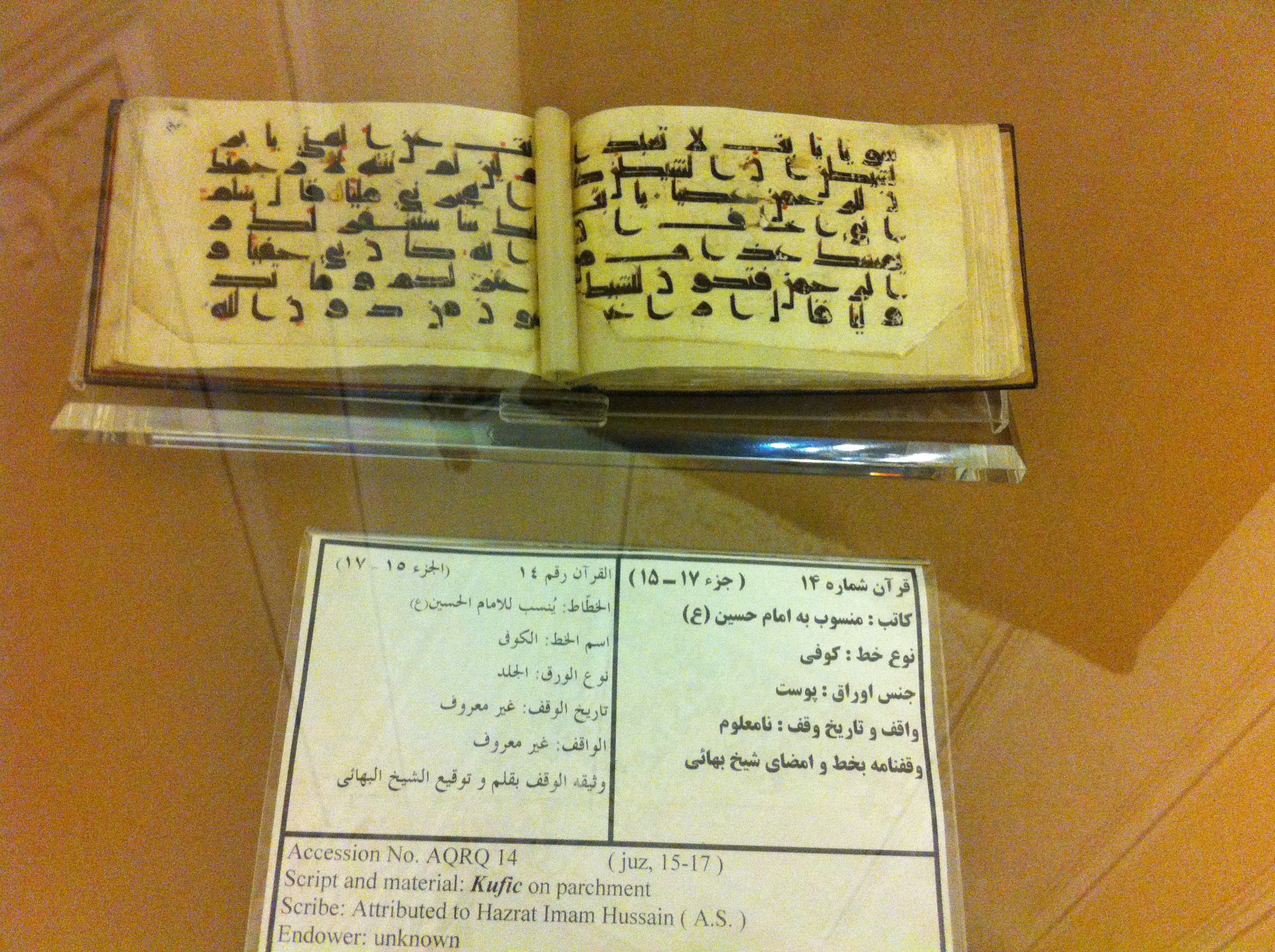 A Quran attributed to Imam Hussain ibn Ali, dating back to over 1300 years ago. This Quran is held in the museum of the Imam Reza Holy Shrine in Mashhad, Iran.